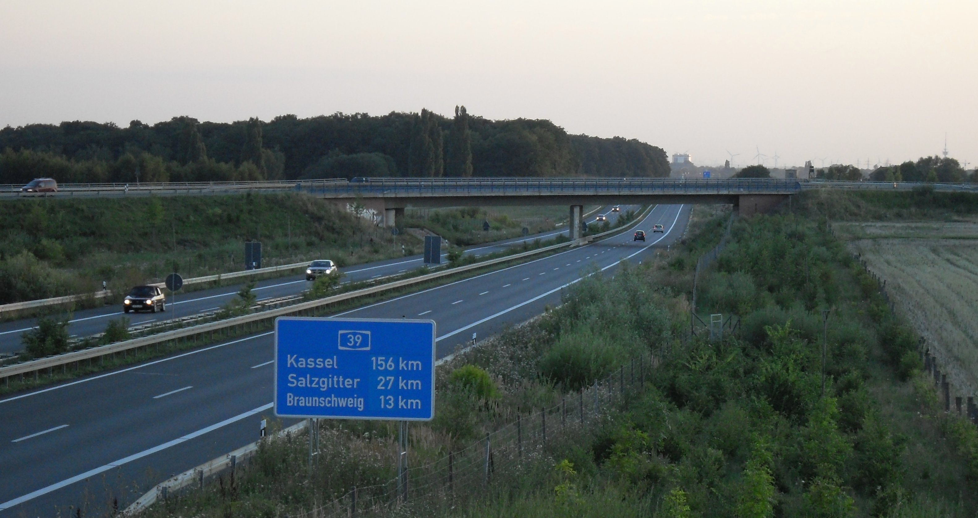 The Bundesstraße 1 crosses the Bundesautobahn 39 near Cremlingen, Lower Saxony